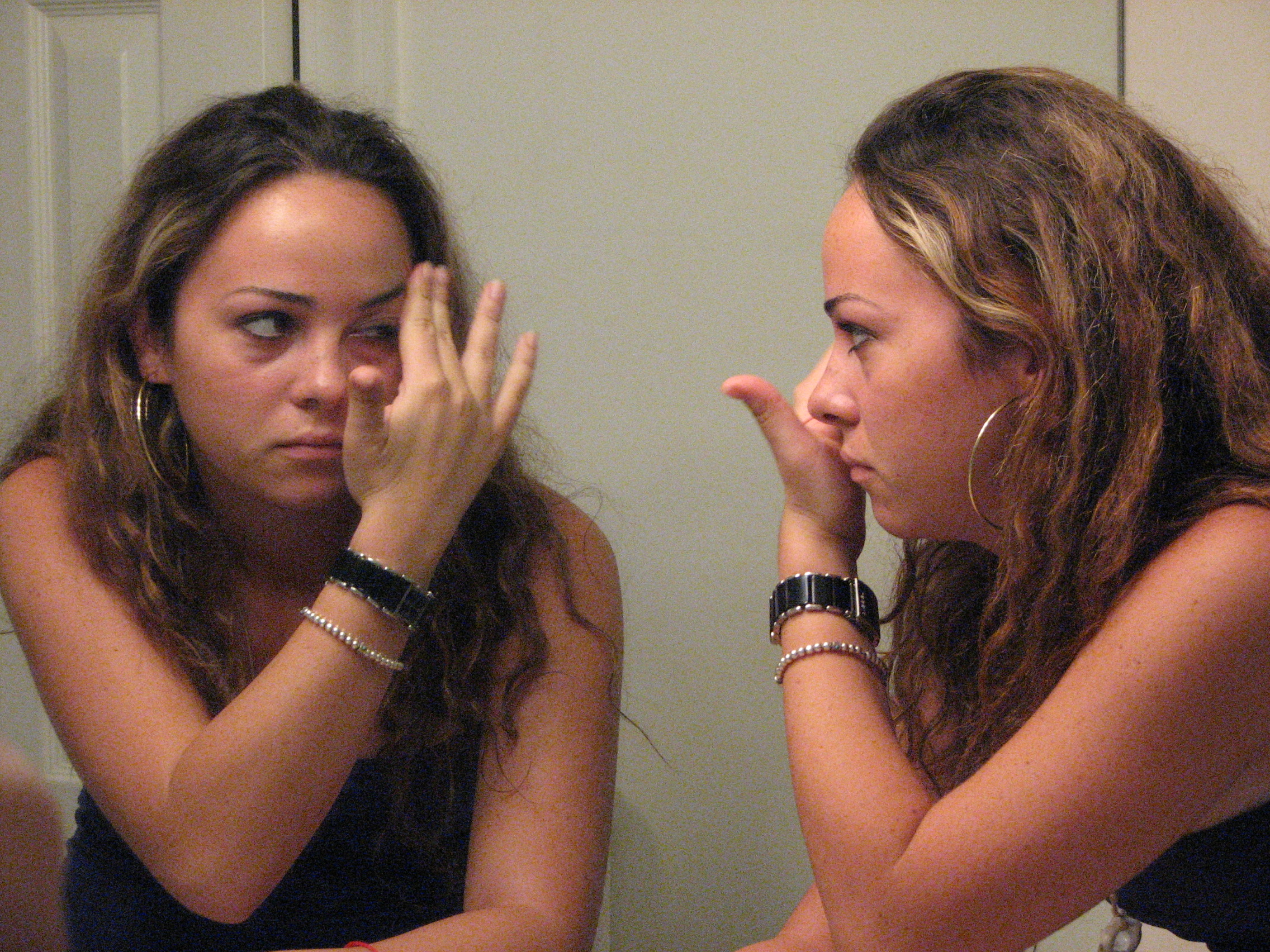 Girl inserting contact lenses into her eyes in front of a mirror